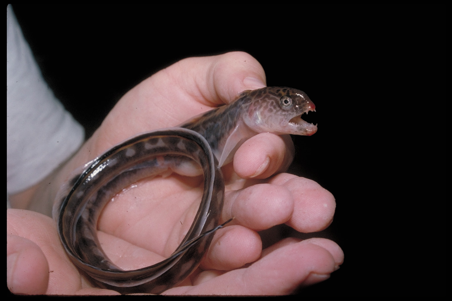 A small juvenile wolfeel (Anarrhichthys ocellatus)